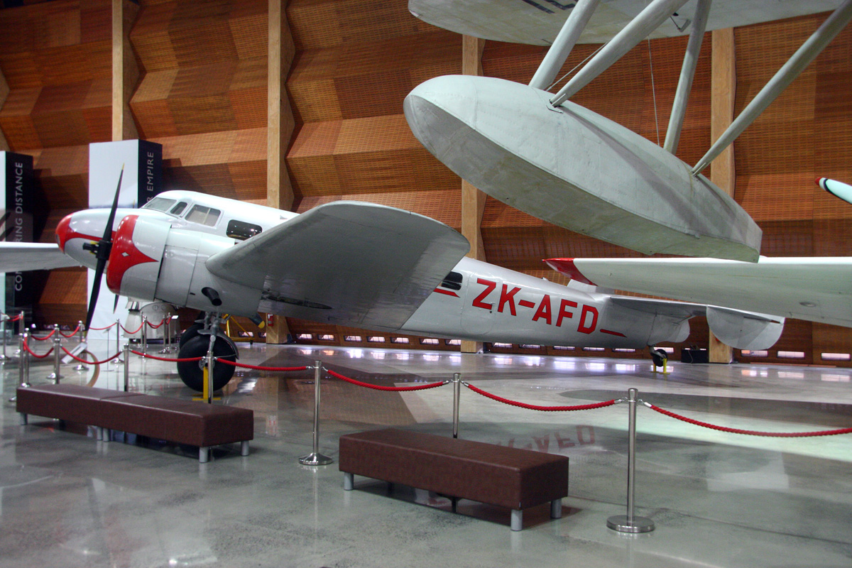 Lockheed Electra ZK-BUT painted as ZK-AFD (ex N21735, N10Y)MOTAT, Auckland New Zealand